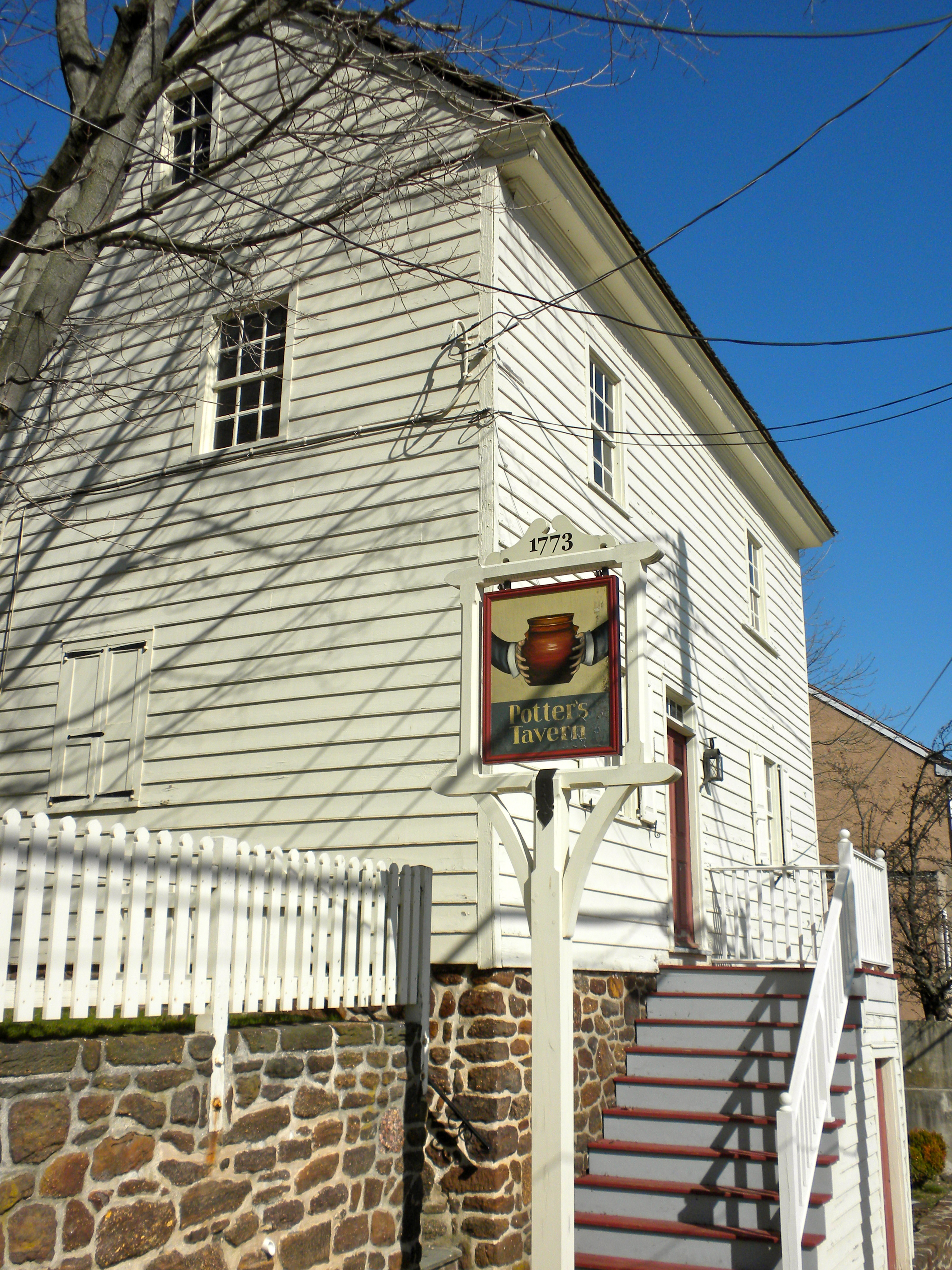 Potter's Tavern on NRHP since September 10, 1971, built 1773 at 49-51 Broad St. in Bridgeton, New Jersey, now across from the Cumberland County Courthouse.